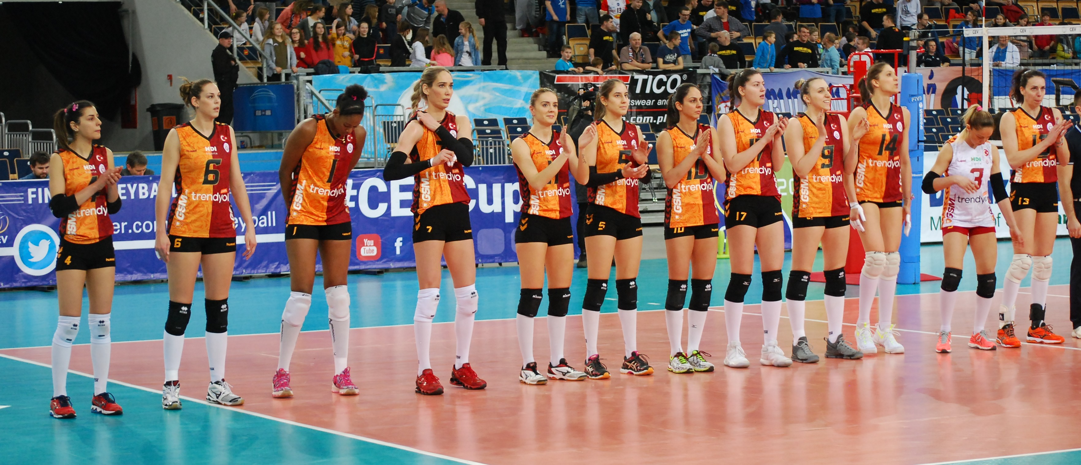 Galatasaray Istambul women volleyball 2017 March